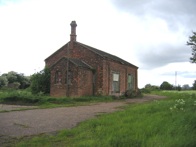 Former railway building, Cowbit, Lincs